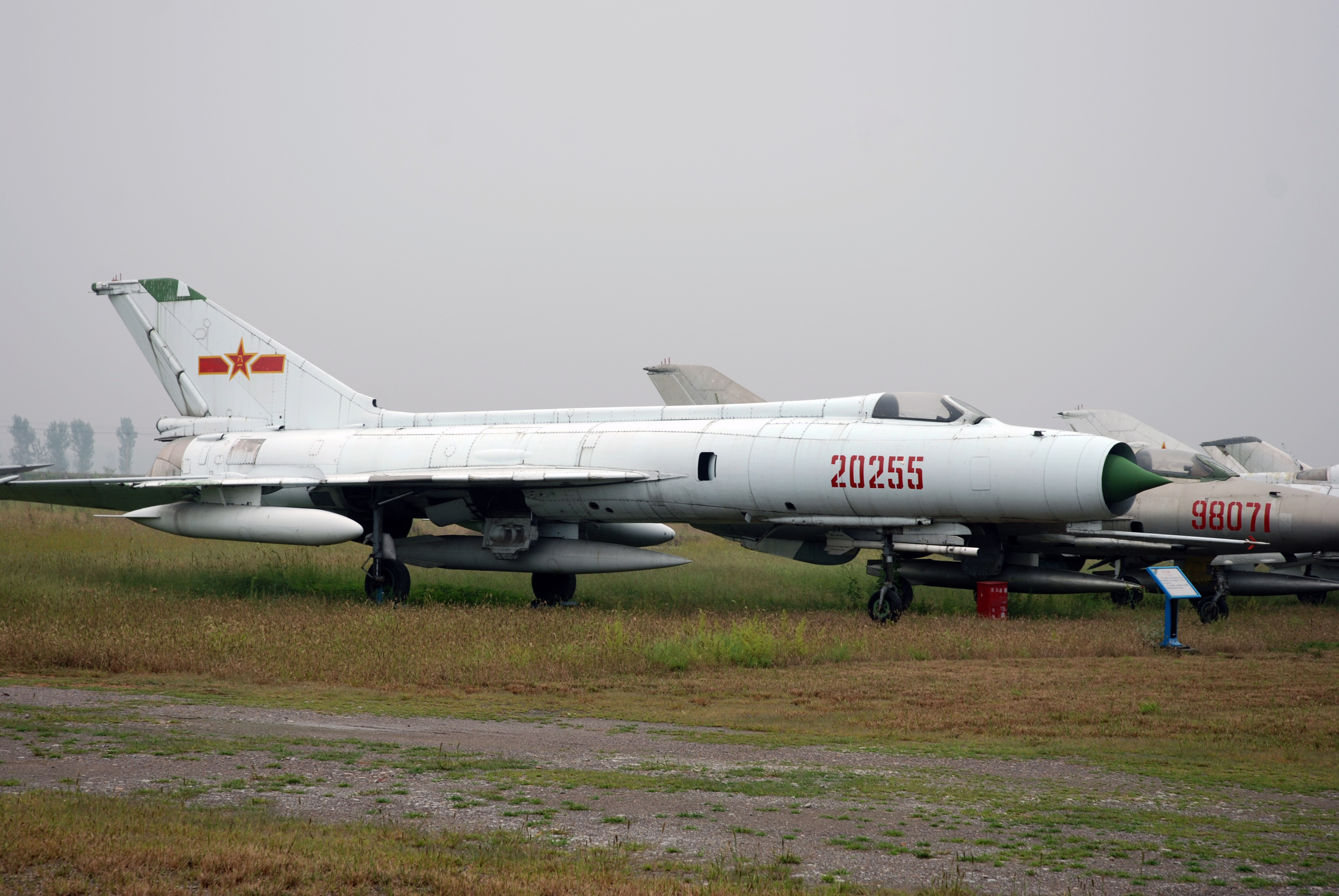 China Aviation Museum,Datangshan,Sep 2008